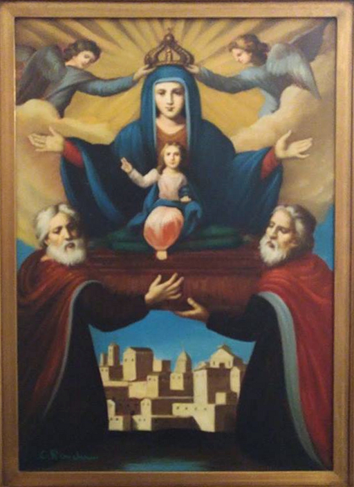 Hodegetria, Saint Patron of Piana degli Albanesi and of the Albanians of Sicily. Copy in the church of Saint Nicholas, Mezzojuso, Eparchy of Piana degli Albanesi (PA, Sicily).